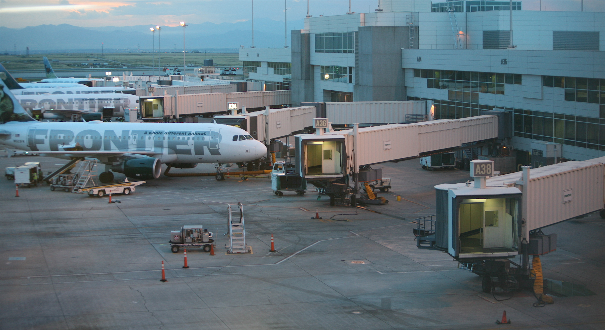 A jetbridge at Denver International Airport